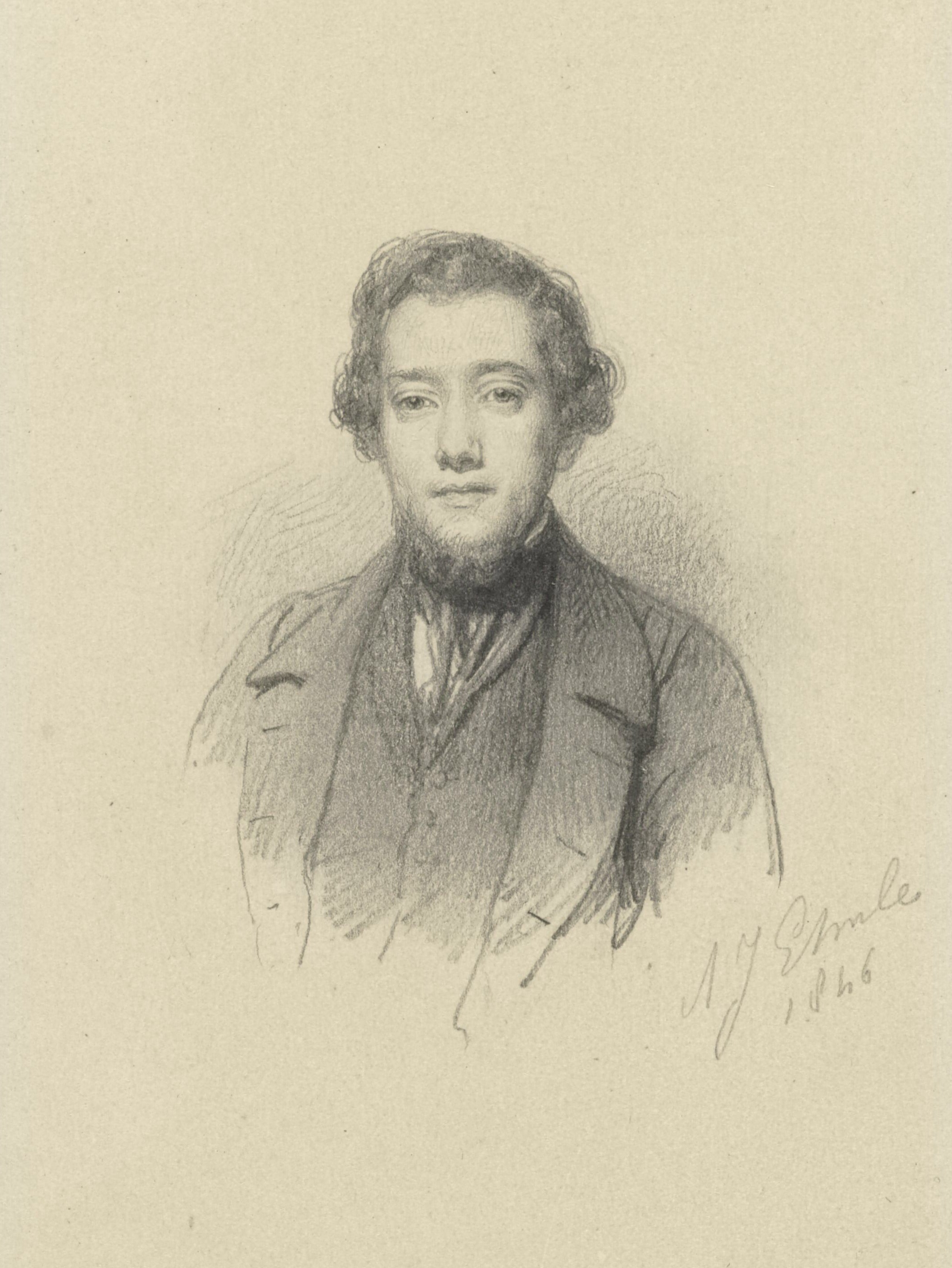 Portret van Johannes Franciscus Hoppenbrouwers